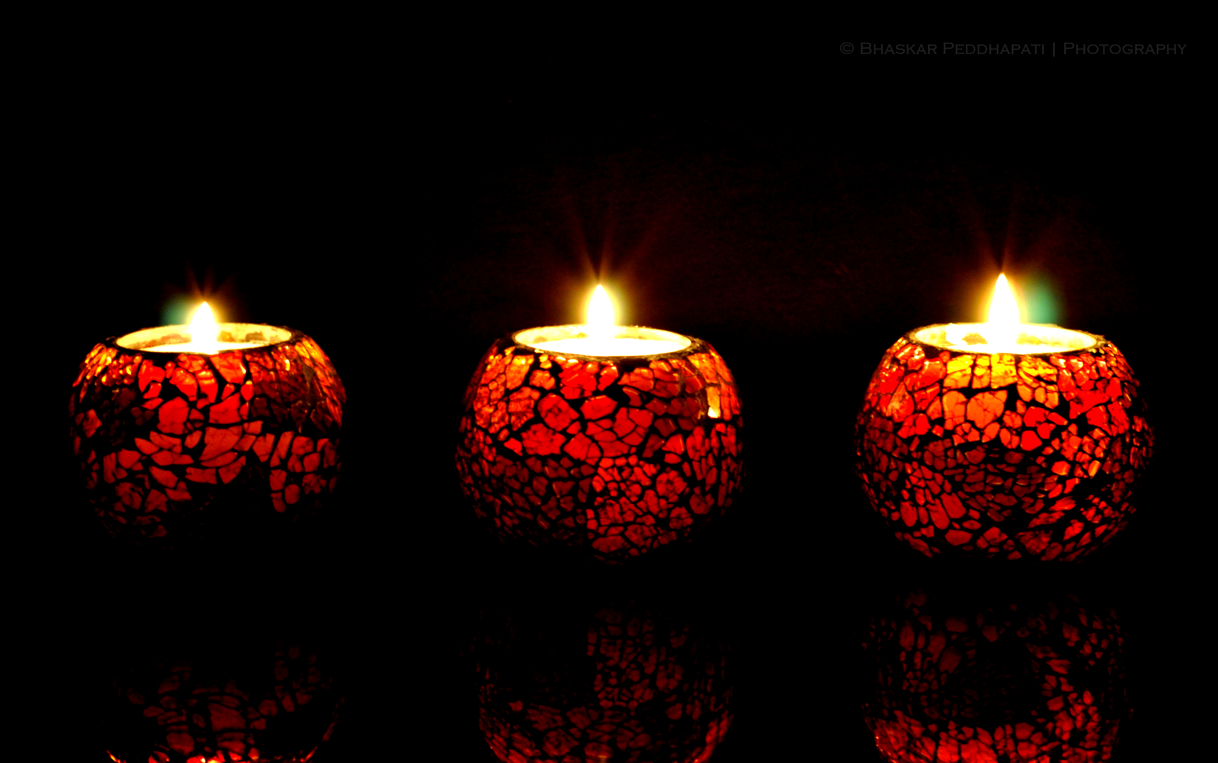 Diwali (festival of lights).